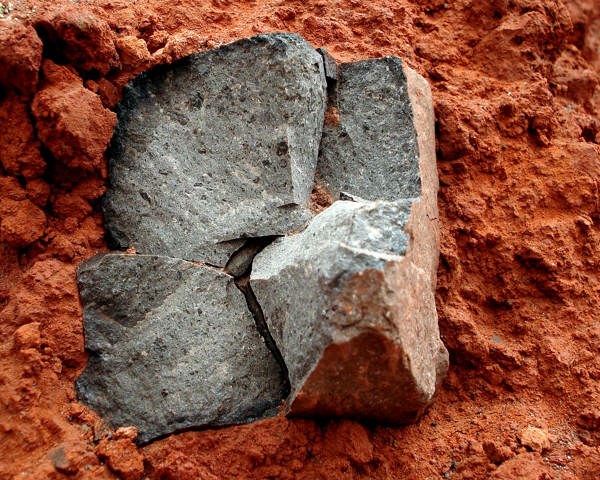 Cotopaxi is classified as an active volcano, though the last major eruption was in 1904. Then again, historically major events have happened on a 100 year cycle. Here, a macro shot of different types of rock embedded in the side of the mountain.